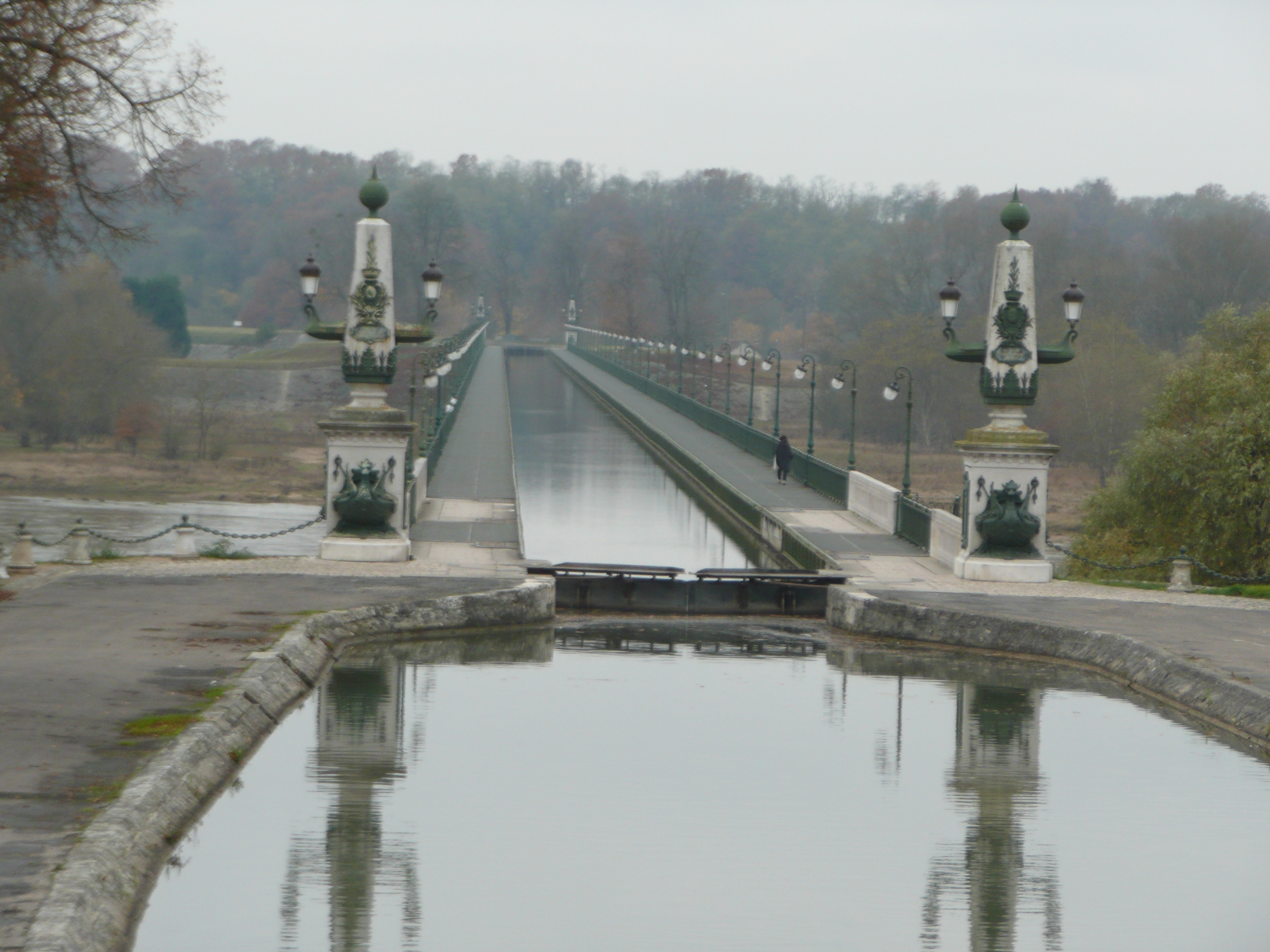 Canal-bridge at Briare (Loiret, France)